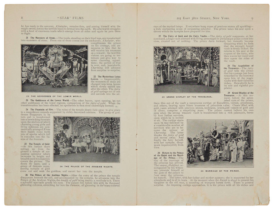 Pages from a promotional leaflet for Georges Méliès's The Palace of the Arabian Nights (1905). The leaflet comes from an auction lot that once belonged to Léo Sauvage (1913-1988), who knew and corresponded with Georges Méliès.